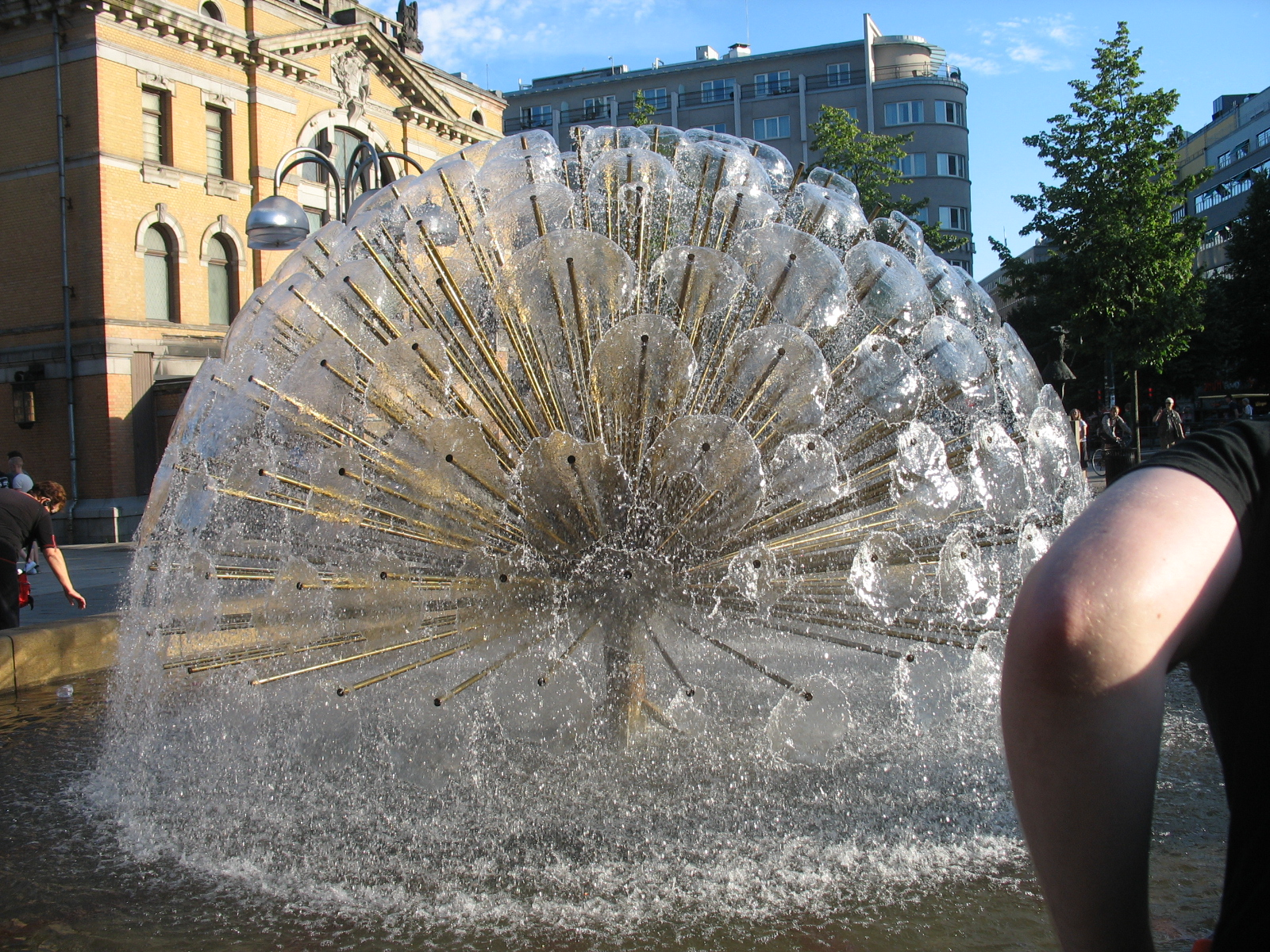 Oslo - fountain in the city center